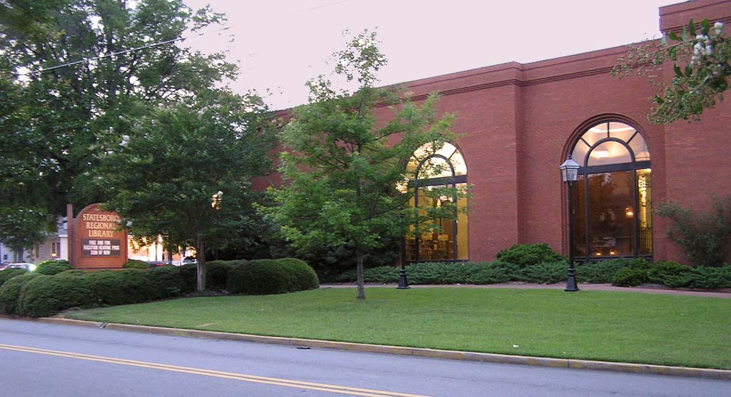 The Statesboro Regional Library, a member of the PINES network in the state of Georgia, taken by Richard Chambers as part of a sequence of photos of Statesboro, Georgia in 2005. Photo taken with an Olympus digital camera in the evening. In the background, behind the trees part of the Beaver House can be seen.